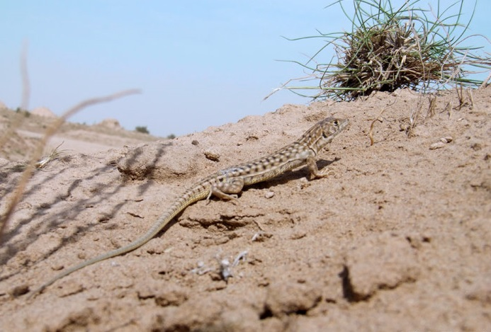 Acanthodactylus grandis at Sand dunes near Dezful (Dezfoul, Khouzestan, Iran)